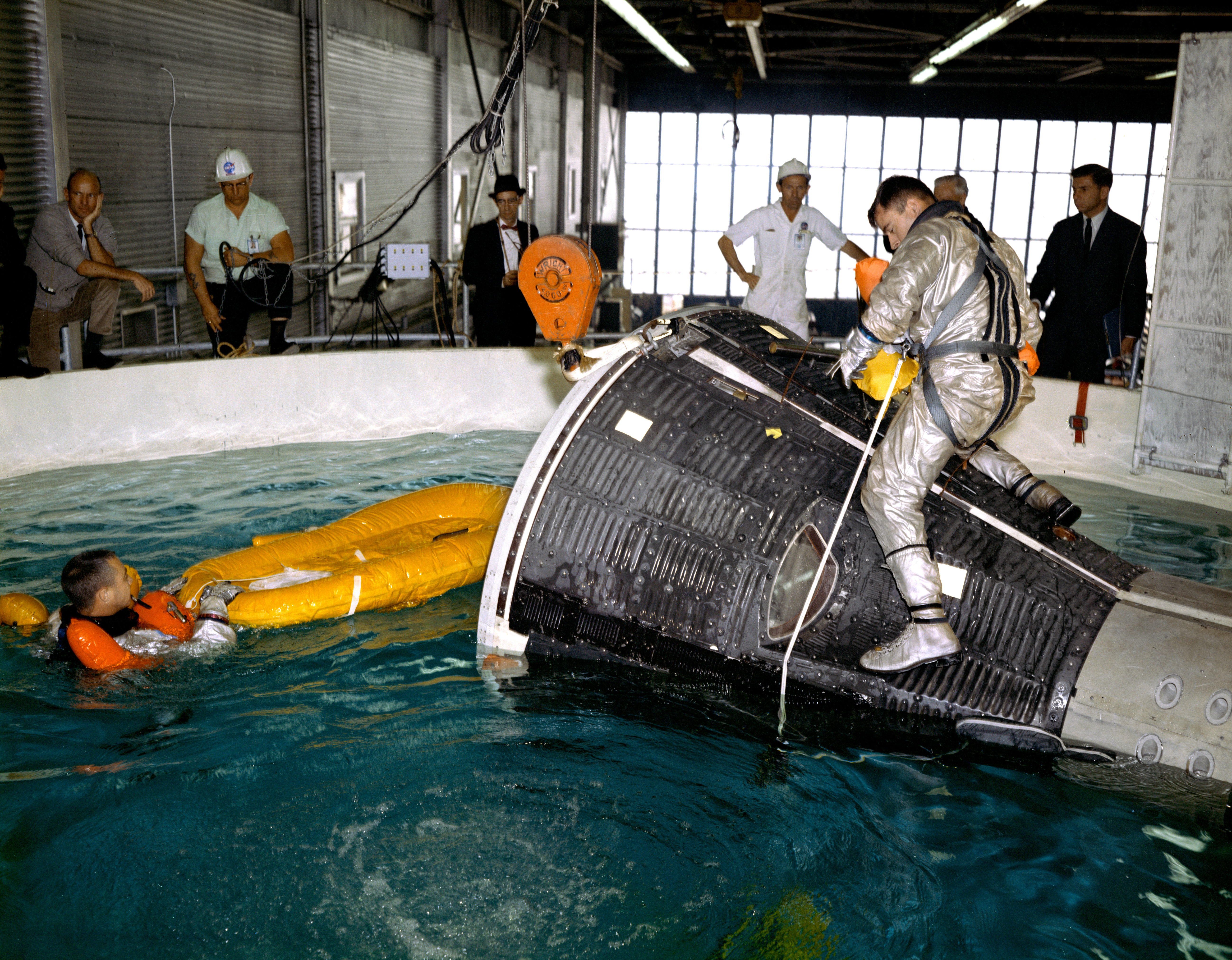 Astronauts John Young and Virgil I. (Gus) Grissom are pictured during water egress training in a large indoor pool at Ellington Air Force Base, Texas. Young is seated on top of the Gemini capsule while Grissom is in the water with a life raft.